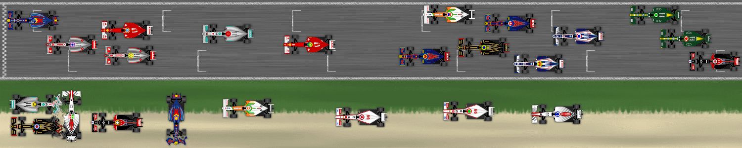 Race result of the 2011 Italian Grand Prix in Monza